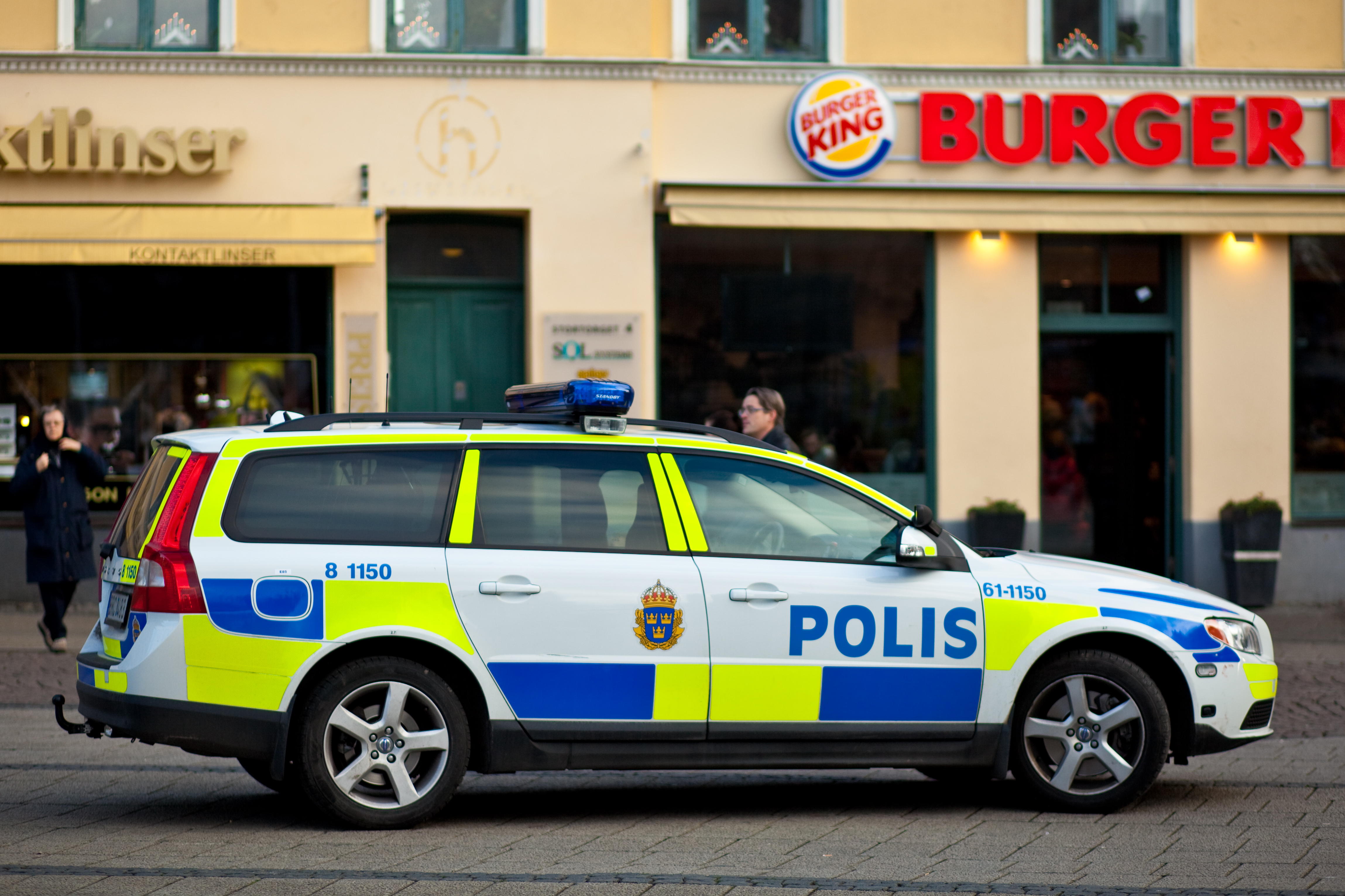 A Swedish police car, Volvo V70II.